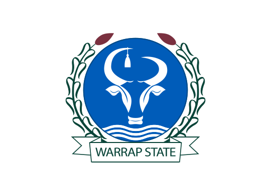 State flag of Warrap in South Sudan and formerly Sudan.